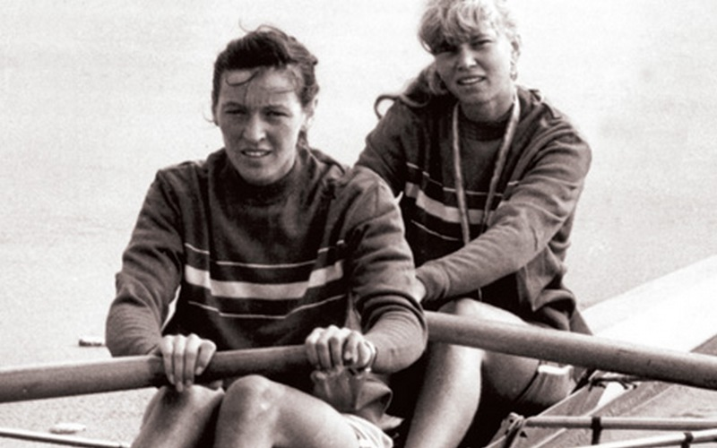 Elena Horvat and Rodica Arba at the 1984 Olympics